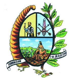 steam of upata